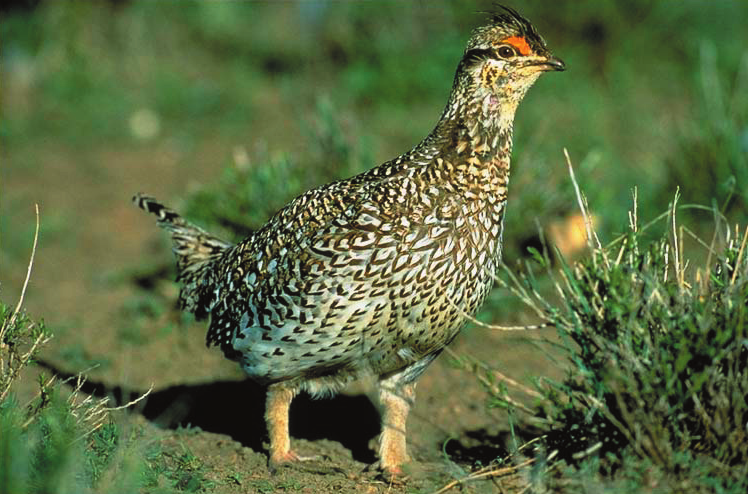 A Columbian Sharp-tailed Grouse male.